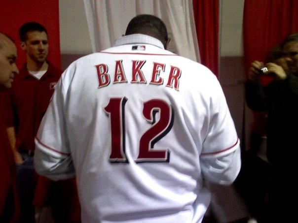 Description Dusty Baker sporting his new #12 Cincinnati Reds jersey. DateDecember 7, 2007SourceOwn workAuthorLesserm (talk) 04:49, 18 March 2008 . . Lesserm . . 604×453 (42 KB) Dusty Baker sporting his new #12 Cincinnati Reds jersey.